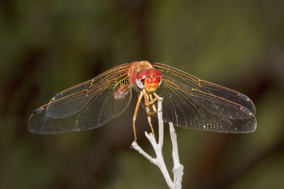 Known only from a few locations in SE Arizona and a small portion of northern Mexico. Parker Canyon Lake, Santa Cruz Co., AZ, USA.